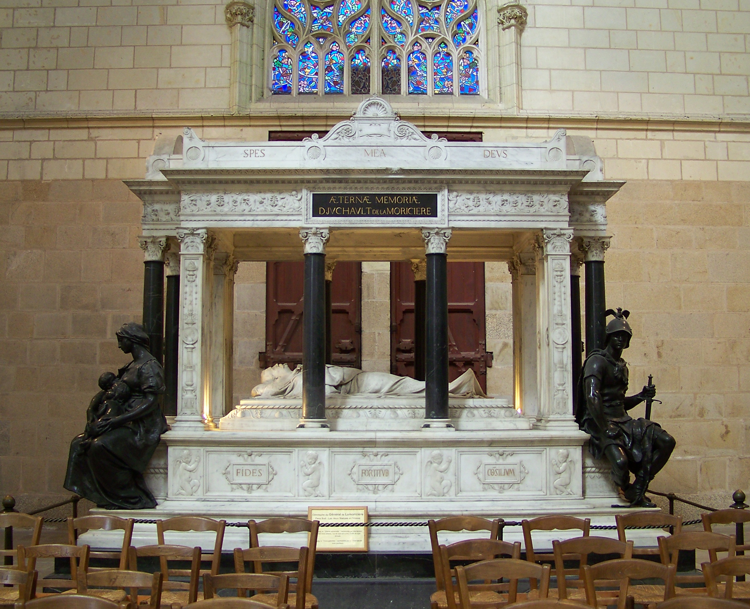 Cenotaph of the general de Lamoricière in the Cathédrale Saint-Pierre et Saint-Paul de Nantes (northern transept). The statues at the corners are allegories of "Universal Charity" (front left), "Warlike Force" (front right), "Wisdom" (back left) and "Faith" (back right).